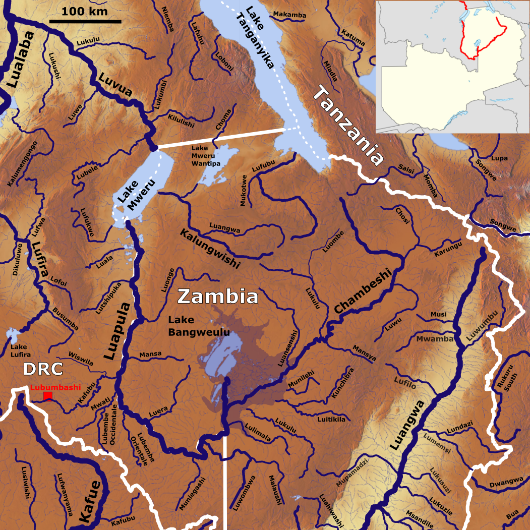 The Luava River with its Tributaries. Based upon US and Russian Army maps: sc35, sb35, sc36, sb36